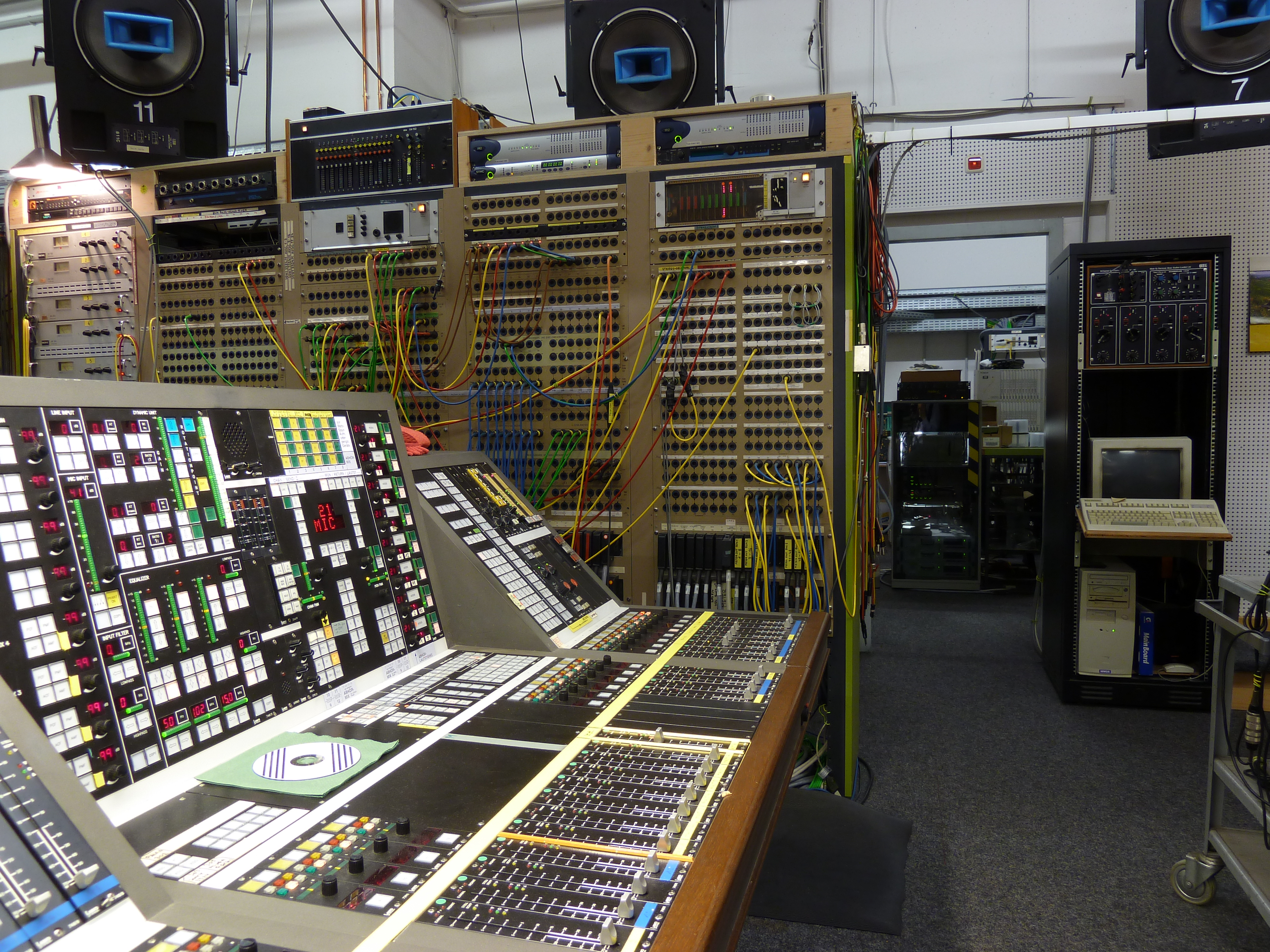 This is the Lawo PTR mixing console, once used by Karl Heinz Stockhausen. Now kept clean & in working condition by Volker Müller from the Studio für Elektronische Musik at WDR, Cologne.